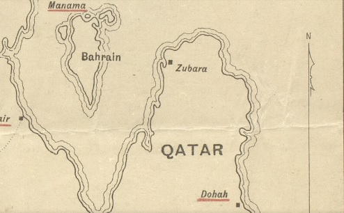 This is a printed version of a sketch map hold at IOR/R/15/1/319, folio 100. Shows western shores of the Persian Gulf with key regional ports marked and underlined in red. The map was produced to illustrate the debate over the port of Zubara, Qatar. Below In the left-hand corner below neat line: ‘S.D.O. no. 2794, February 1920.’